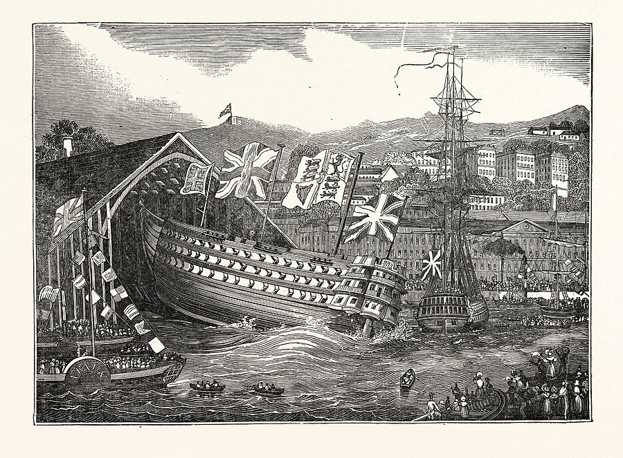 Launch of his Majesty's ship Waterloo at Chatham Taken fromː The Saturday Magazine No 103 8 February 1834 Vol IV